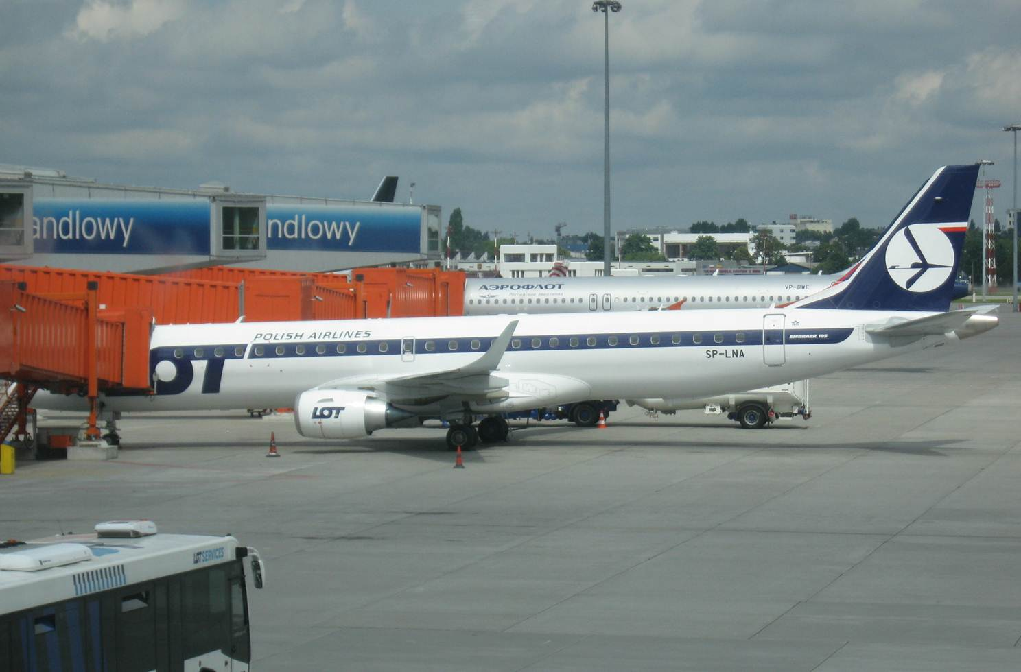 Embraer 195 PLL LOT (SP-LNA), Warsaw Chopin Airport (WAW/EPWA)